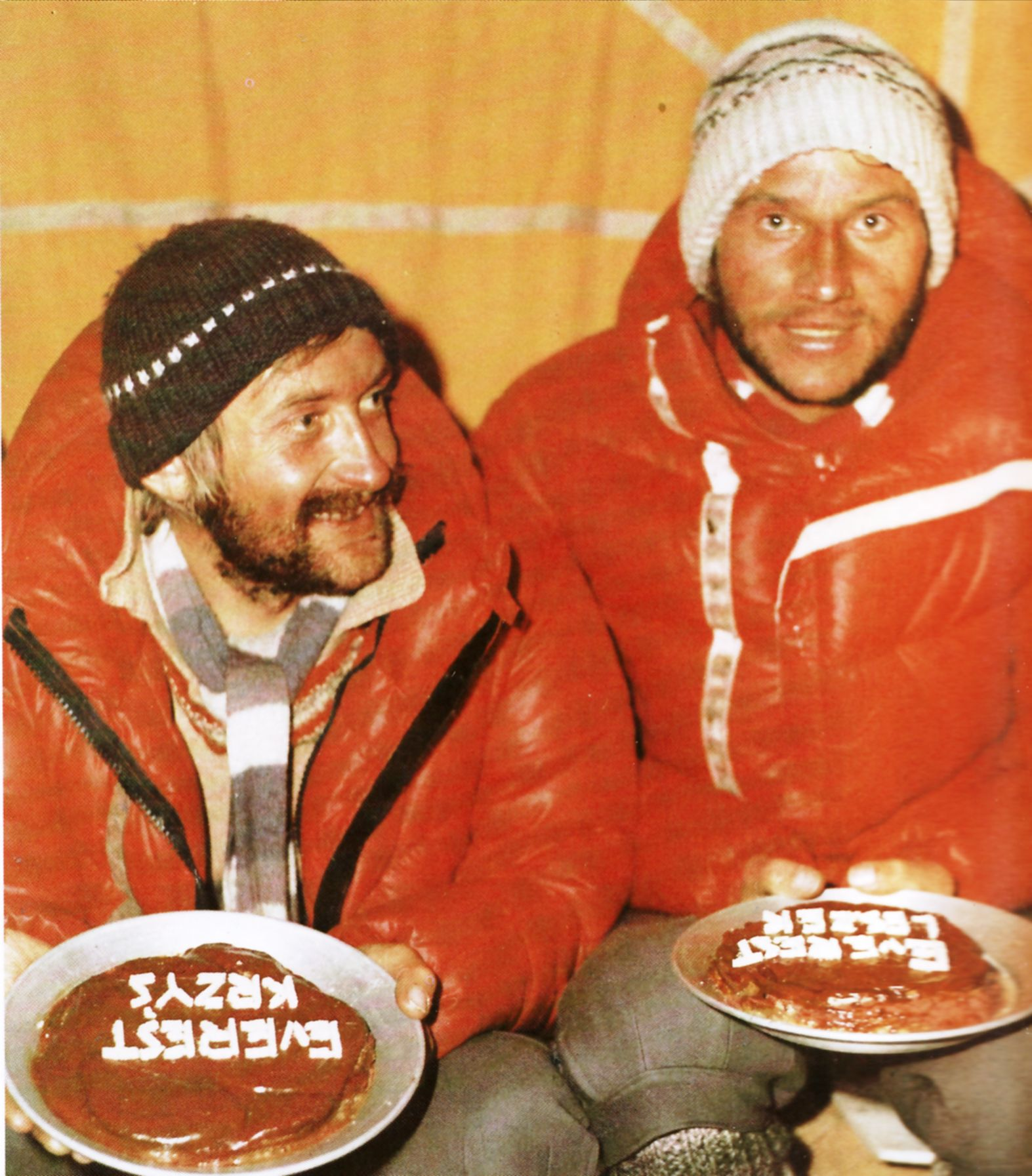 Celebration in the basecamp after February 17, 1980 first winter assent of Mount Everest by Krzysztof Wielicki and Leszek Cichy.